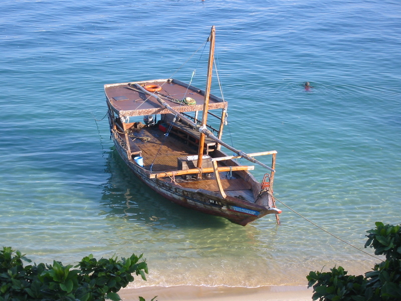 Traditional vessel, Stone Town, Zanzibar.